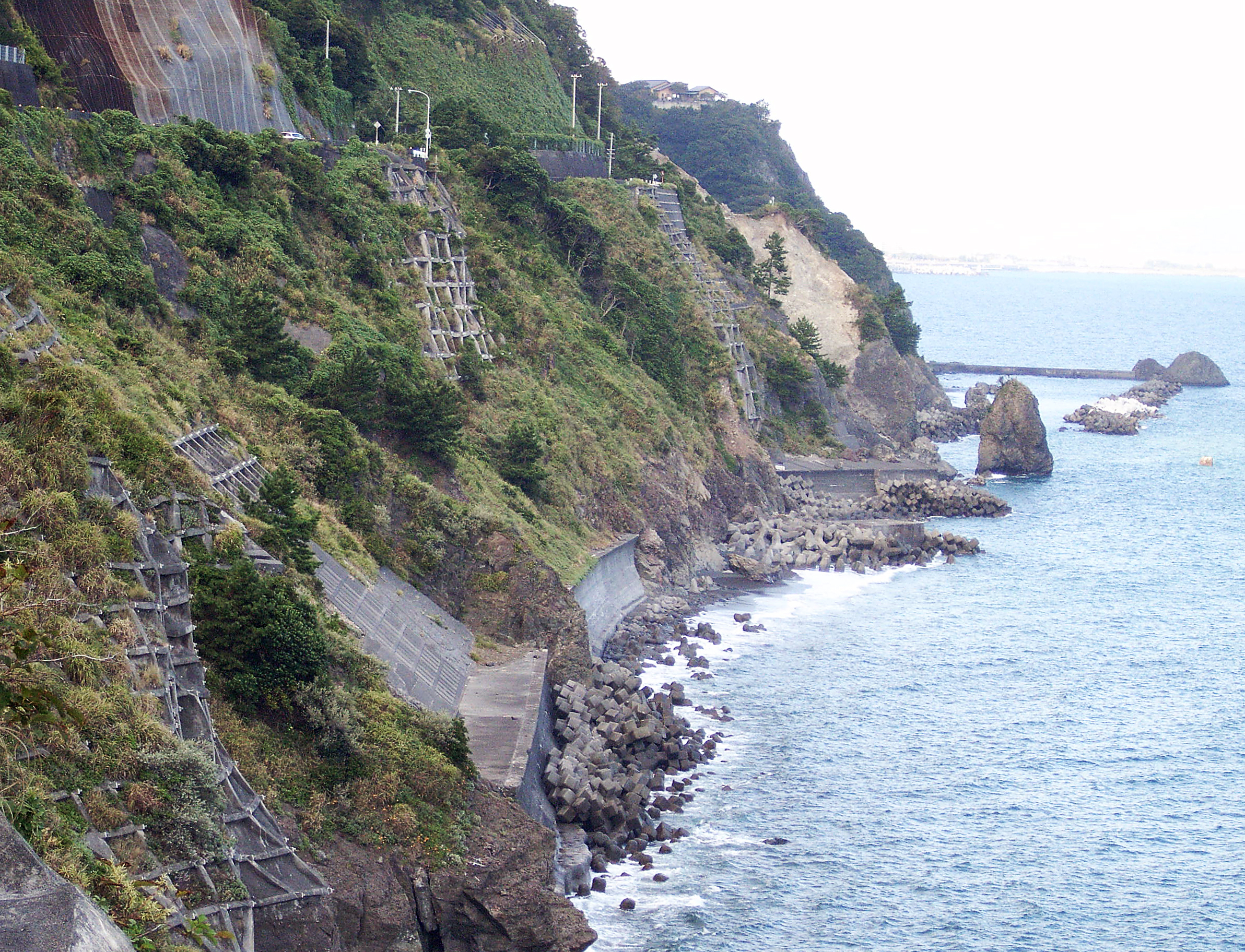 Ōkuzure Coast as viewing eastward.